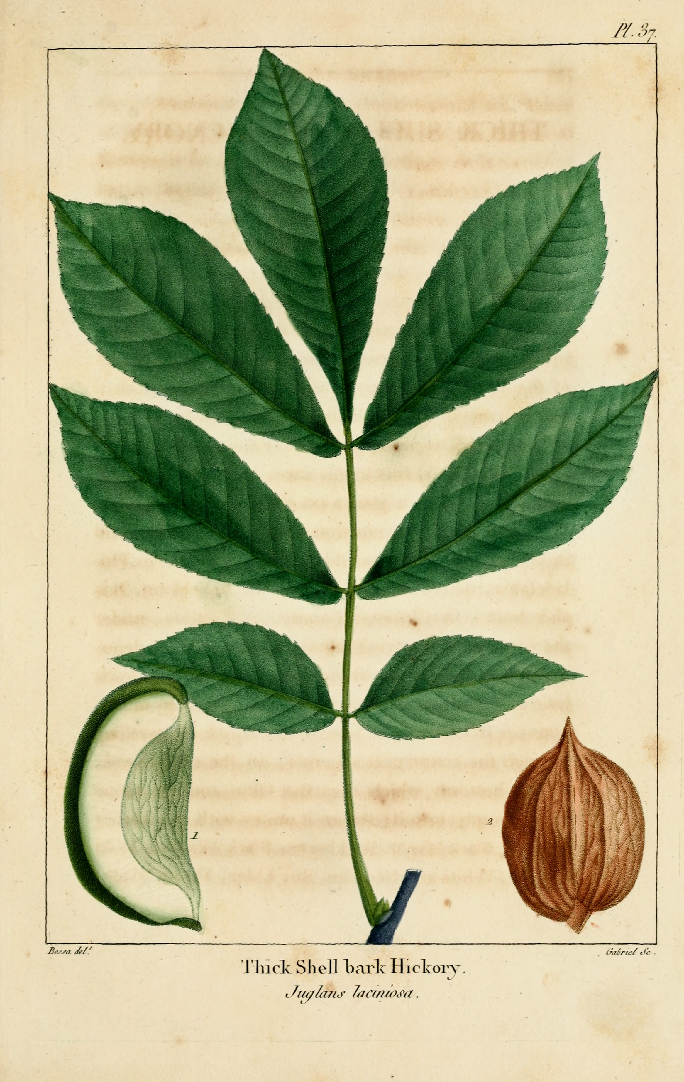 Plate 37 from The North American Sylva: Carya laciniosa. (Original caption: Thick Shell bark Hickory. Juglans laciniosa.)